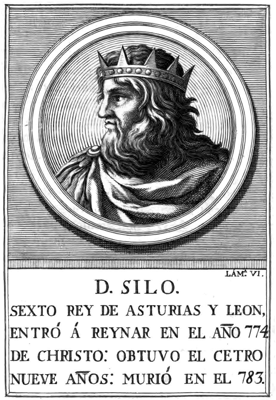 Silo of Asturias